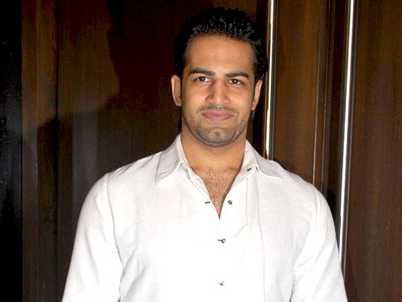 Upen Patel at success party of Ajab Prem Ki Ghazab Kahani